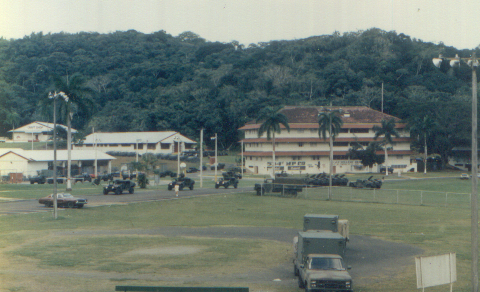 Fort Clayton, Panama, showing the 534th MP Company and surrounding buildings